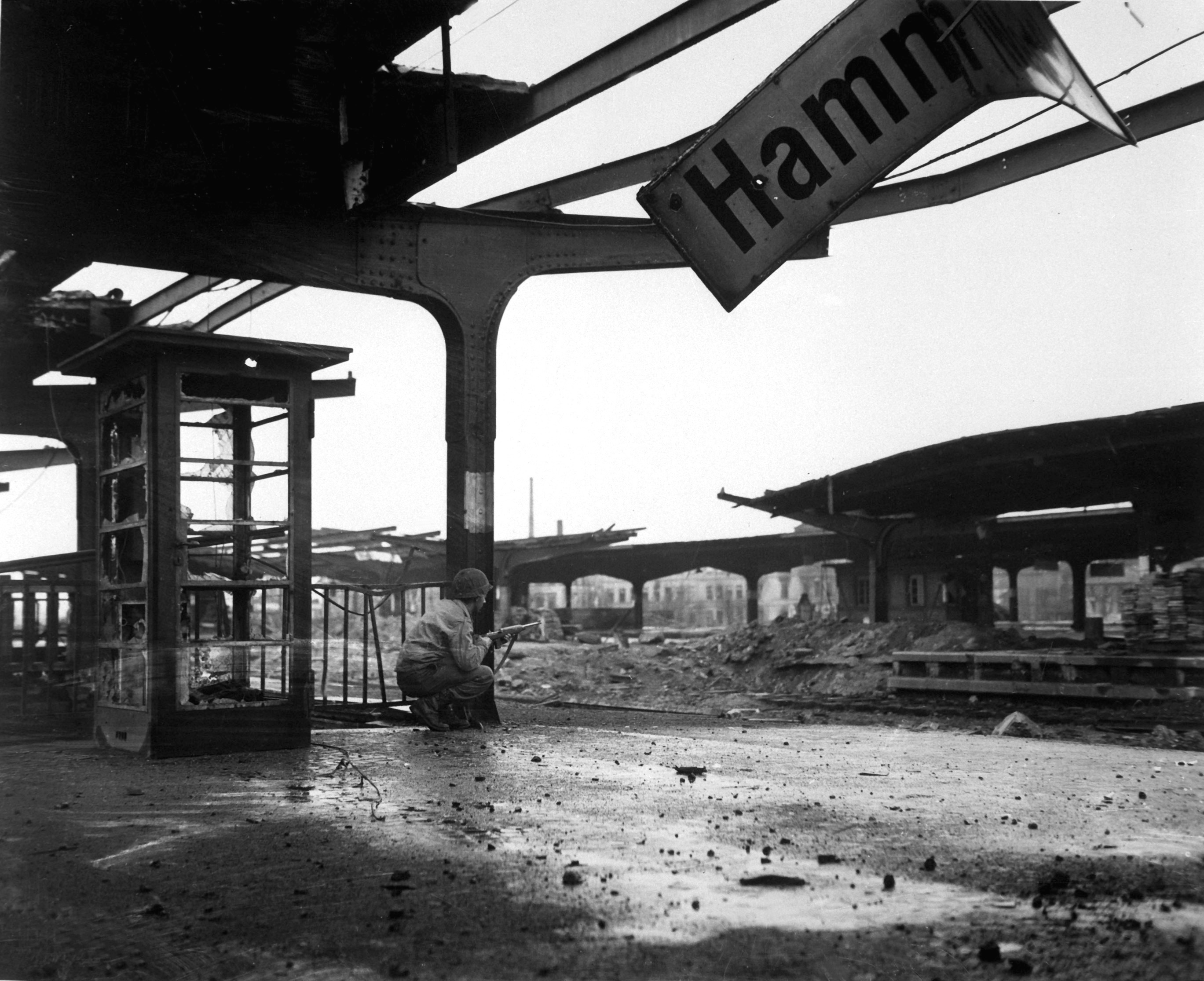 A U.S. soldier in the ruins of the railway station of Hamm/Westfalen, Germany, on 6 April 1945. Original caption: "Alert for enemy movement, Pfc. Armand Rindone, Philadelphia, Pa., crouches with a carbine at the railroad station in the newly captured town of Hamm, Germany. April 6, 1945."